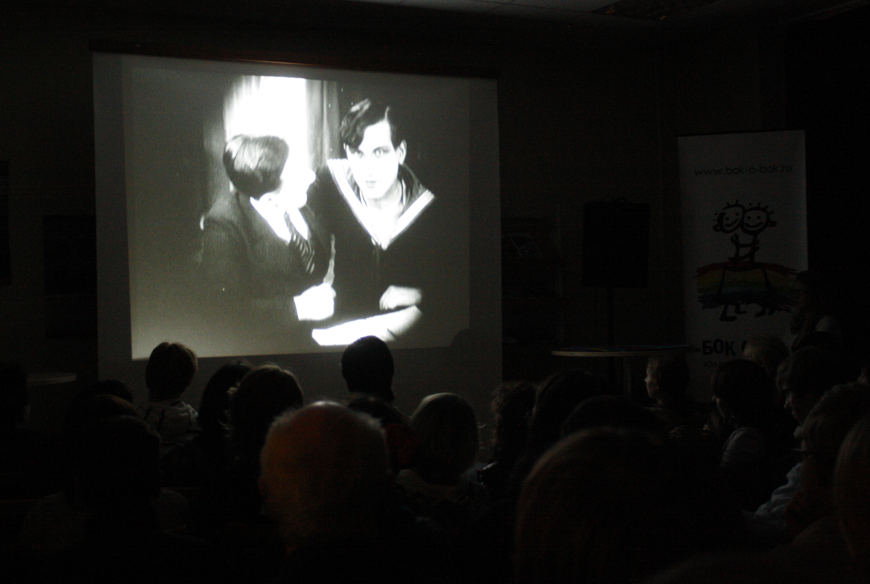 A scene from the film Anders als die Andern (1919) screened at the International Gay and Lesbian Film Festival «Side by Side»